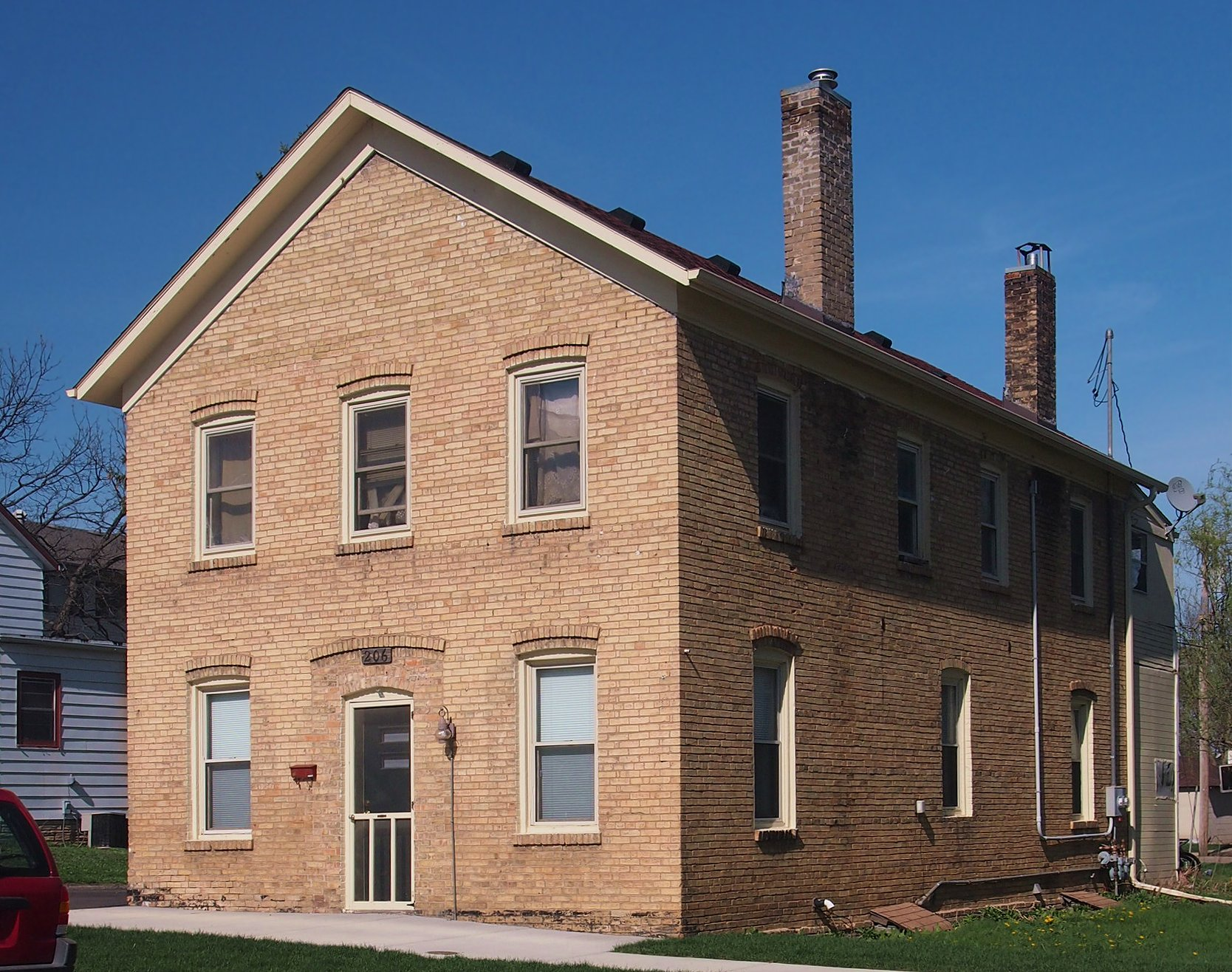 Frank Miesseler House, 206 Walnut St, Chaska, Minnesota, USA. Viewed from the southwest. A contributing property to the Walnut Street Historic District.